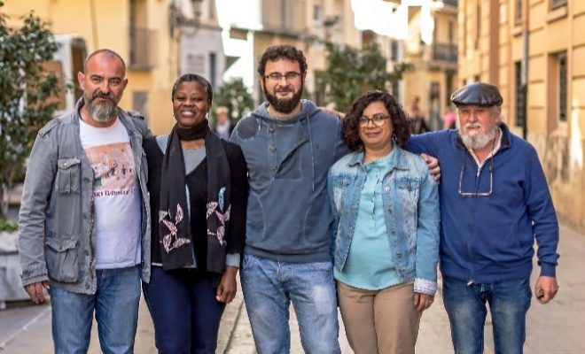 Candidate Team of Berto Jaramillo for the municipality of Valencia